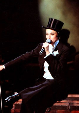 Photo taken during one of the concerts in 1993